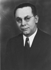 former Senator Frank P. Briggs of Missouri.